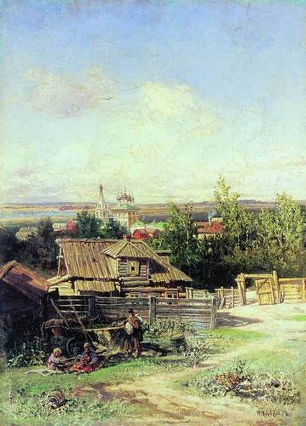 Nikolay Makovsky (1842-1886) A View Of The Volga-River At The Nizhni Novgorod